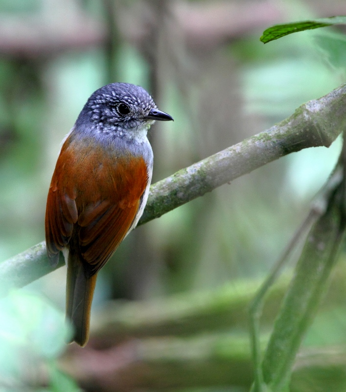 Male rufous-backed antvireo at Campos do Jordão - SP -Brazil